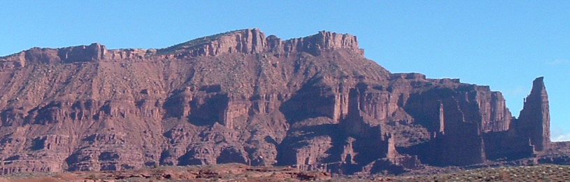 The Fisher Towers, a famous landmark visible from Utah State Route 128 near Moab, Utah